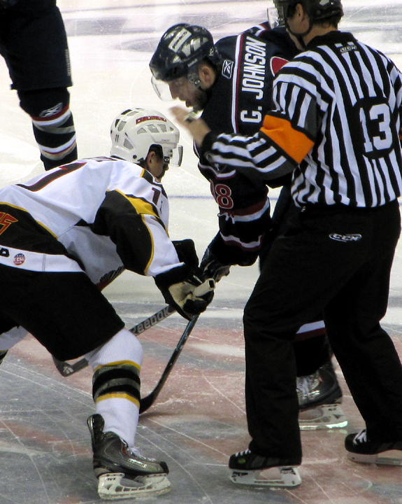 Gregg Johnson of the South Carolina Stingrays hockey team squares off against a player from the Cincinnati Cyclones at North Charleston Coliseum.